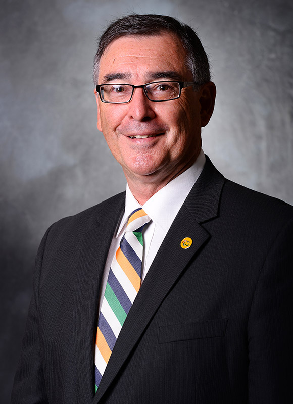 Glenn Tasker was elected President of the Australian Paralympic Committee in December 2013